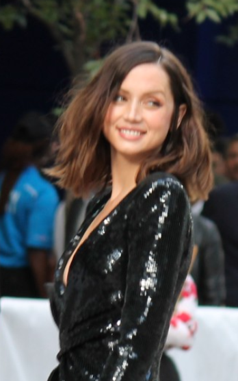 Ana de Armas